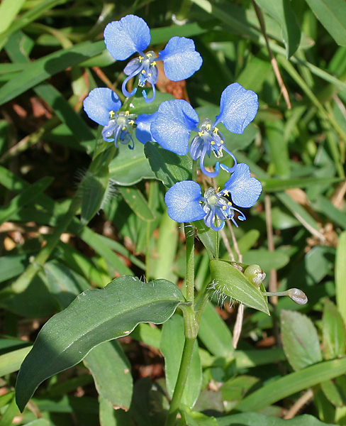 Commelina forskaolii (notice winged stamens) in Hyderabad , India.